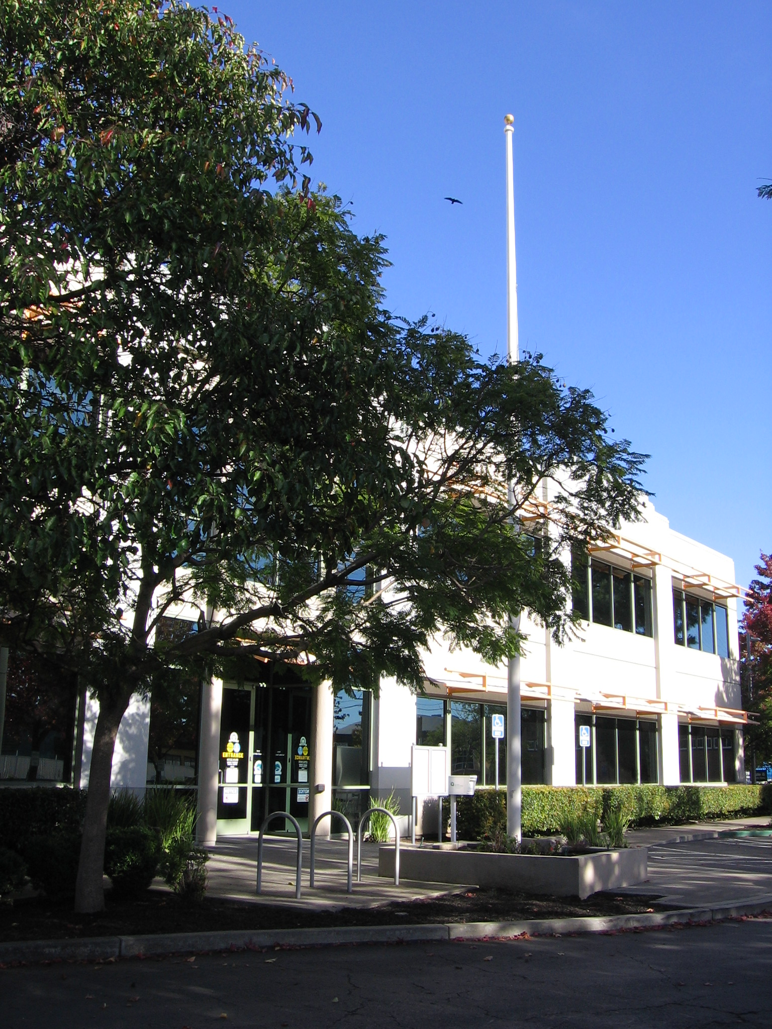 The Alameda Municipal Power headquarters at 2000 Grand Street (corner of Clement Avenue) in Alameda, California, USA.